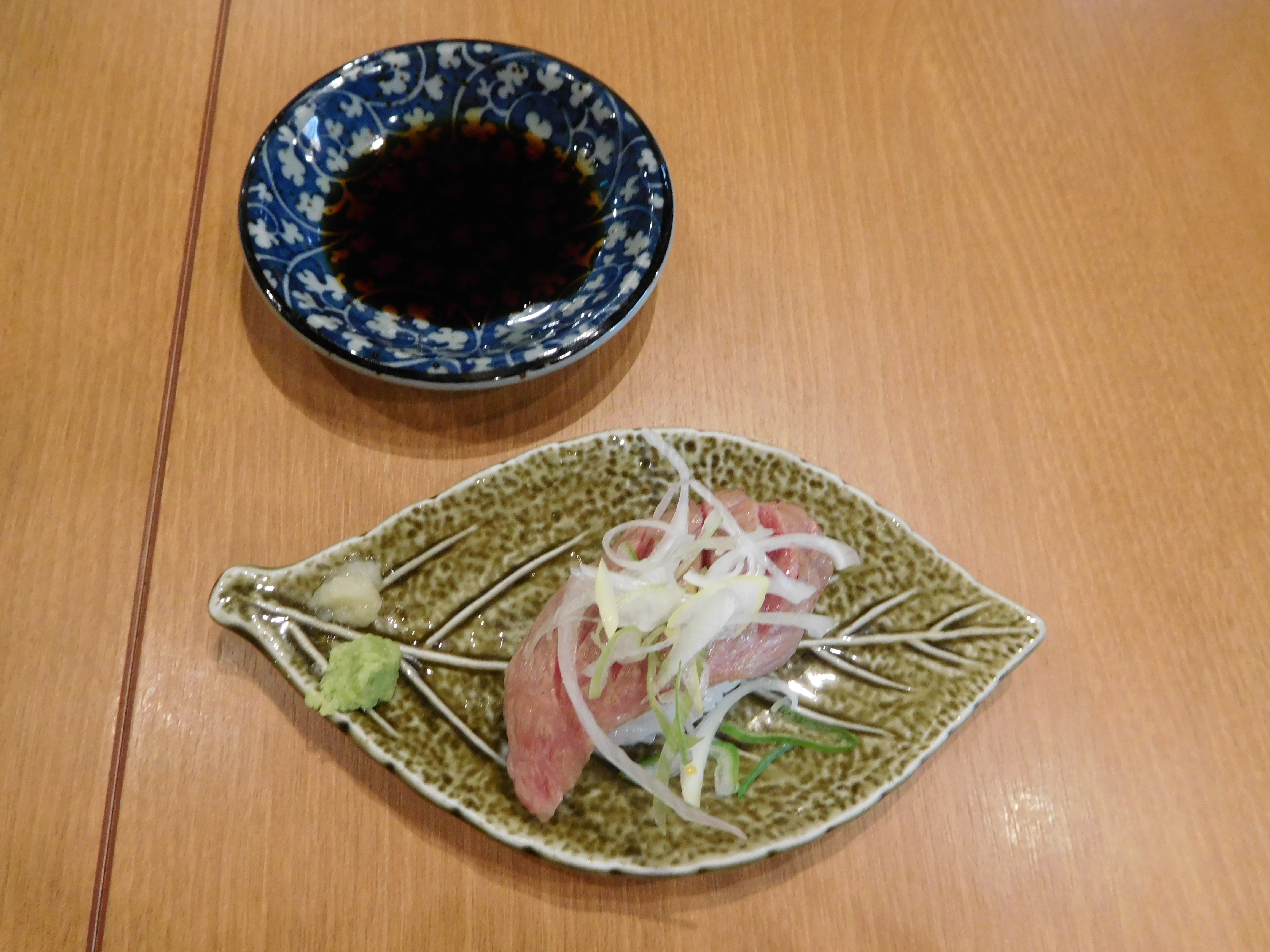 Nigirizushi of Hida Beef in Takayama, Gifu, Japan.